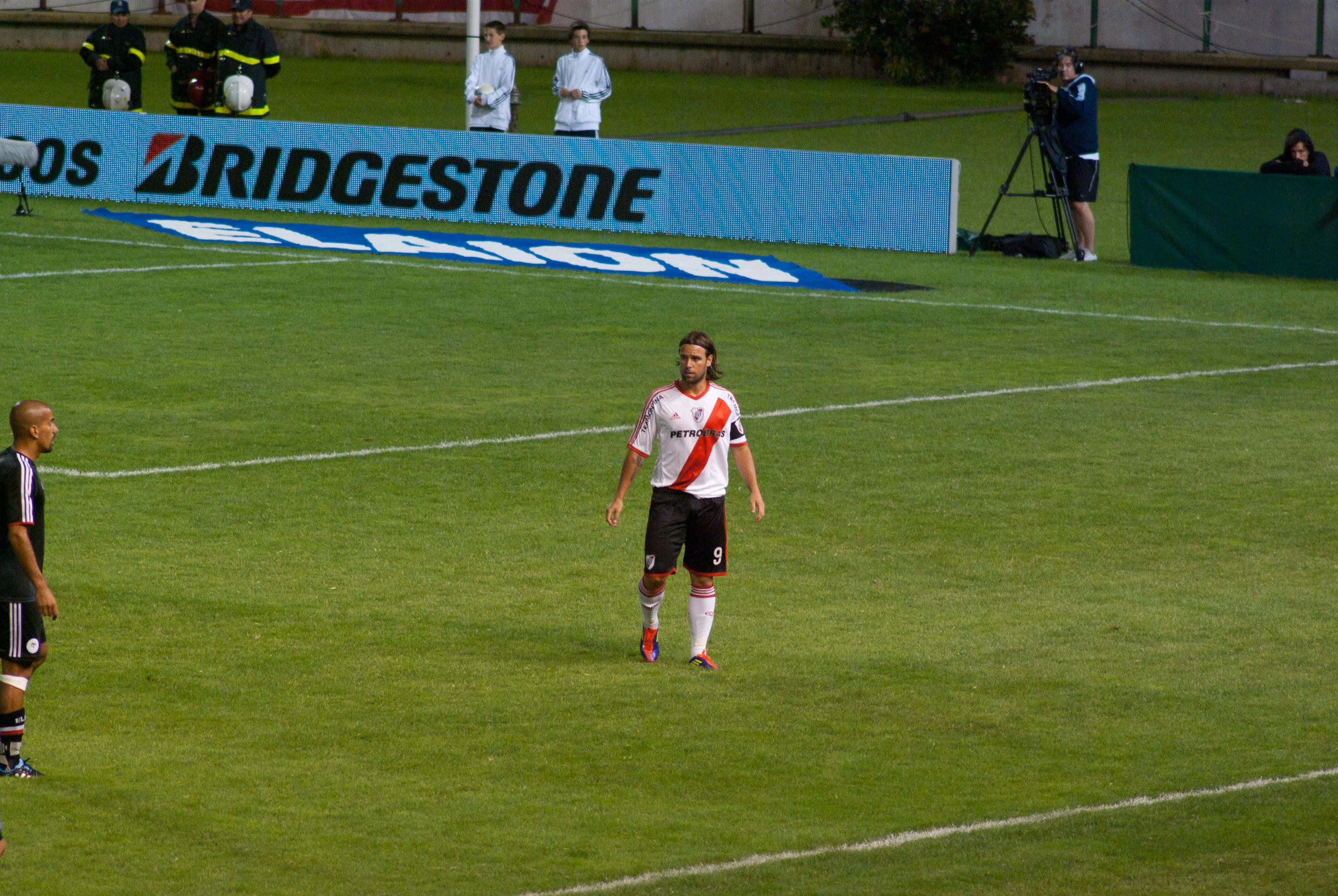 Cavegol